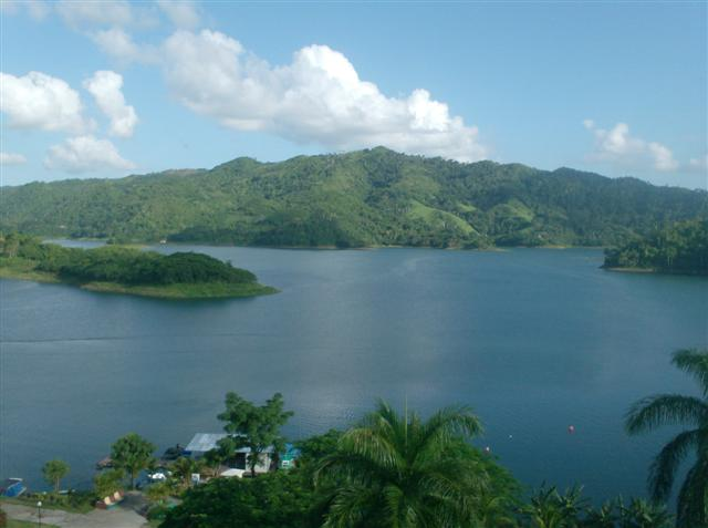 Hanabanilla Lake in the Escambray Mountains, Villa Clara, Cuba